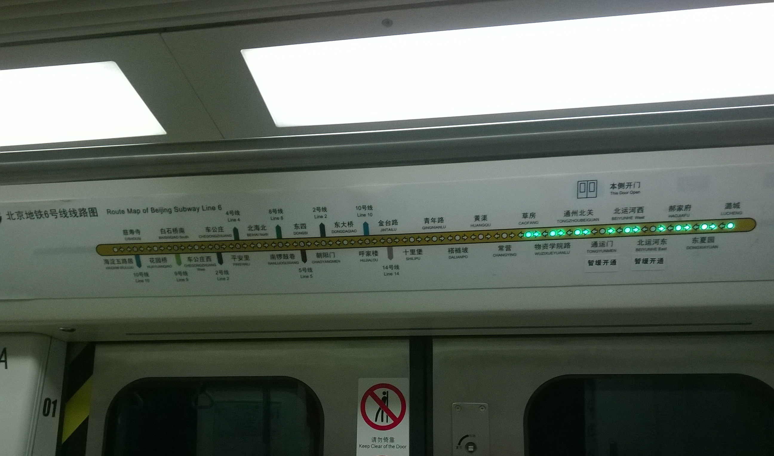 Flashlight map of Line 6, Beijing Subway Phase II. Tongyunmen and Beiyunhe East stations are not yet open.